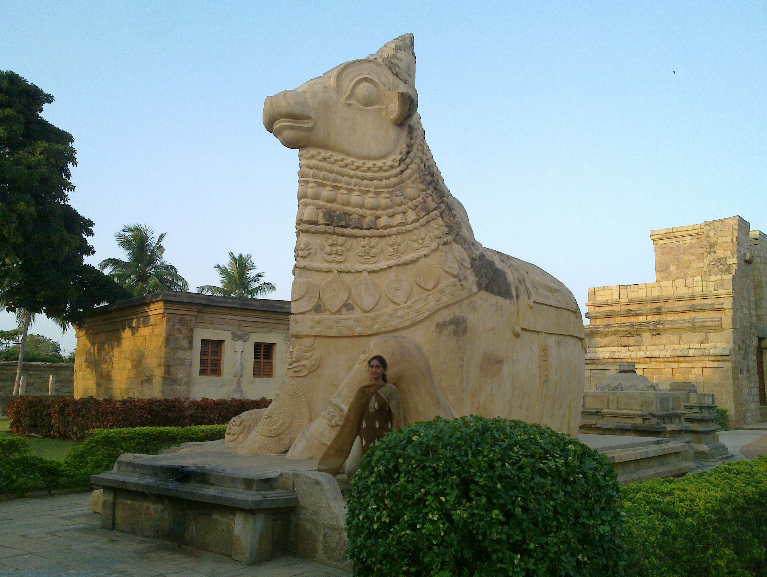 Nanthi in Gangai Konda Cholapuram